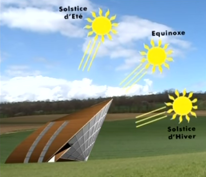 Heliodome